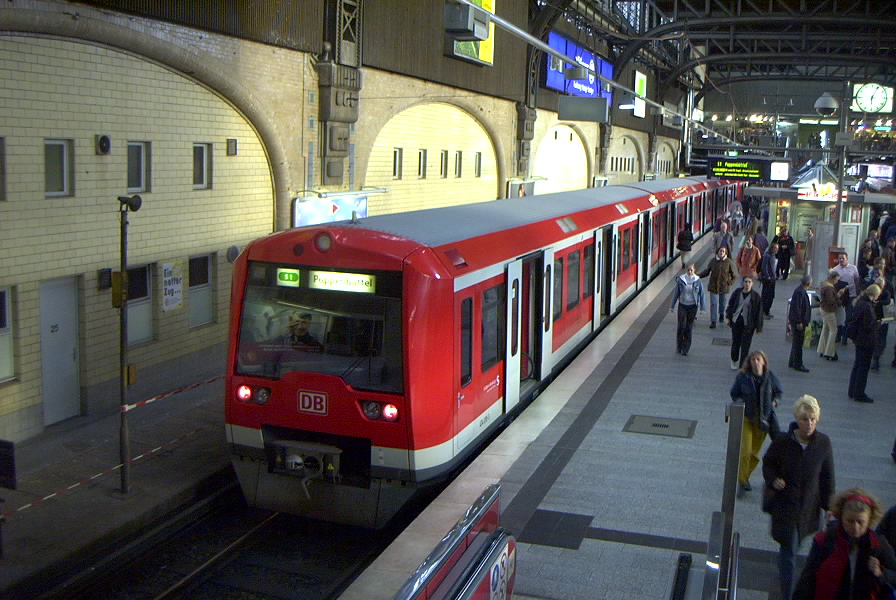 Hamburg's urban rail type 474 at Hamburg's main station